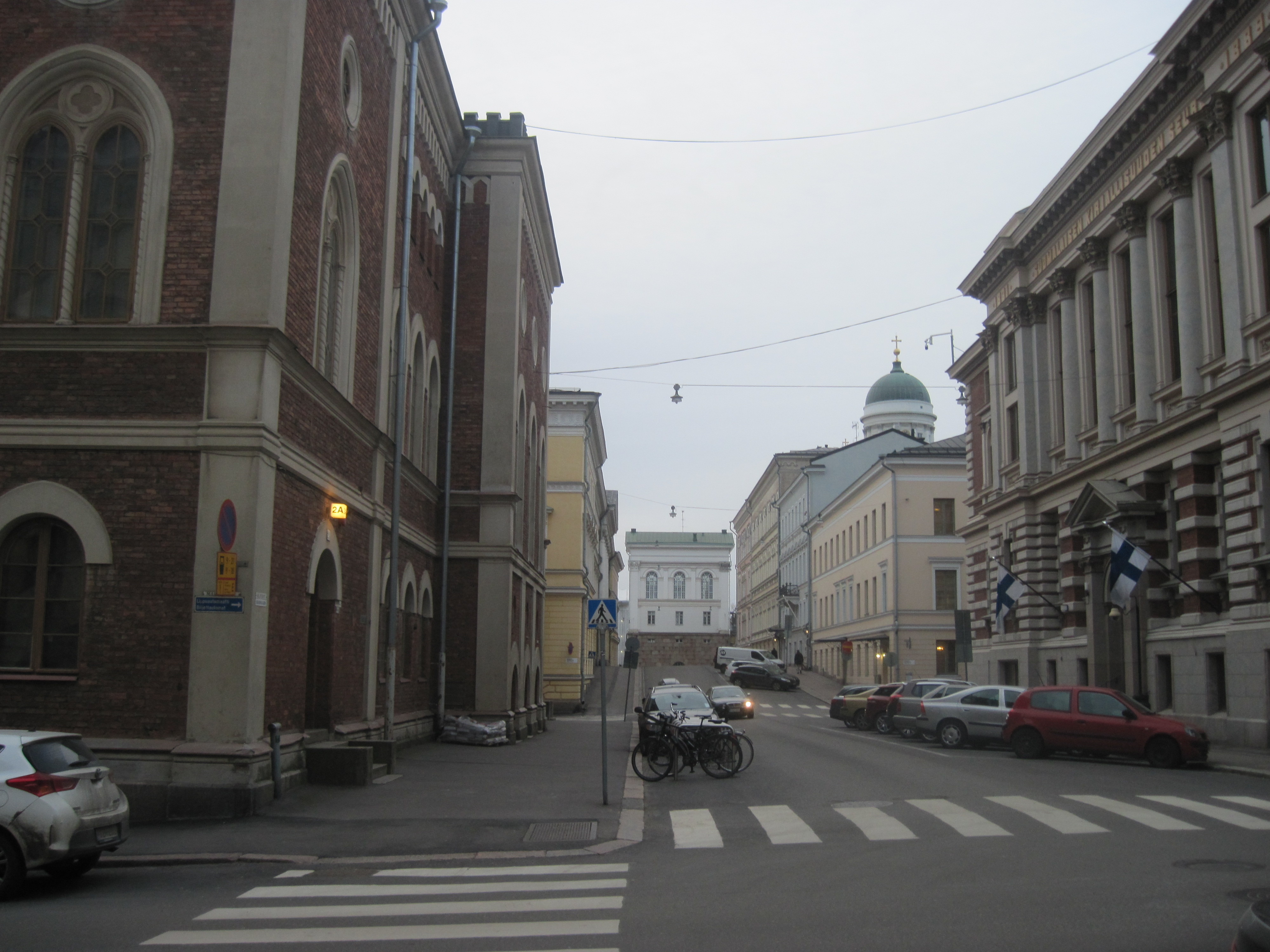 Hallituskatu in Helsinki as seen from the corner of Mariankatu